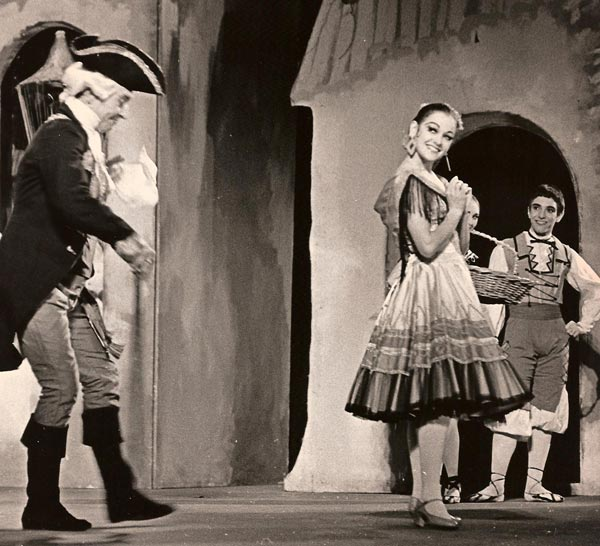 Chris van Niekerk, Maxine Denys en Harold King in die vroeë 1960's in Three-Cornered Hat in die Alhambra, Kaapstad.